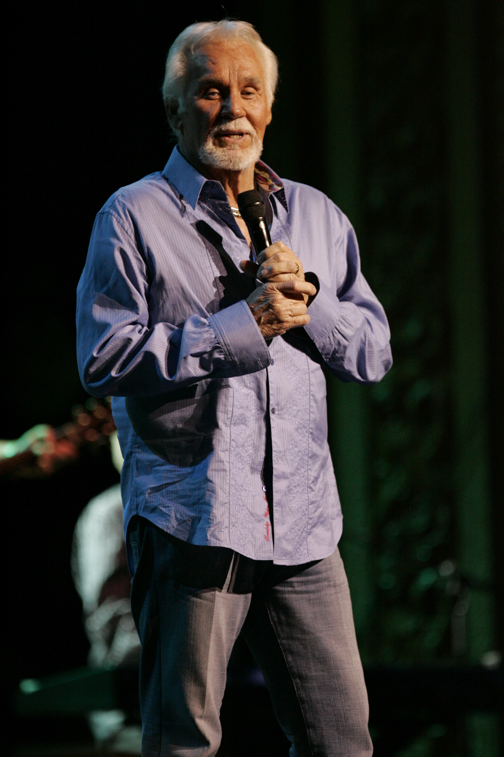 Country music legend Kenny Rogers performs State Theatre, Sydney; Australian music legend John Williamson supports.